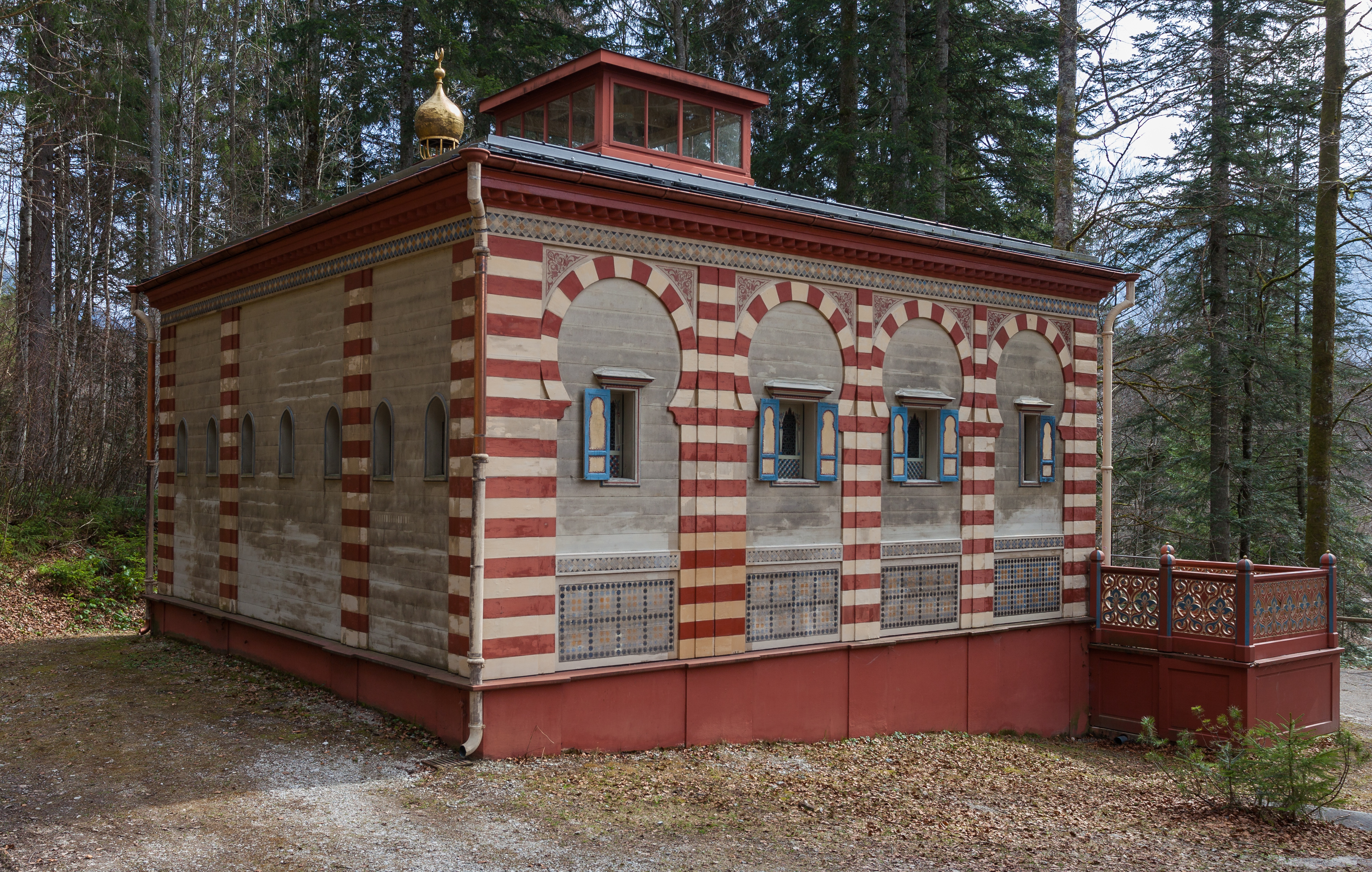 Moroccan House, Linderhof Palace, Bavaria, Germany